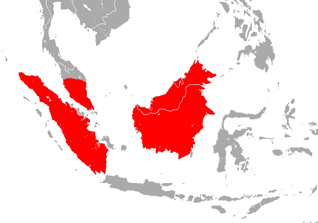 Borneo Roundleaf Bat (Hipposideros doriae) range